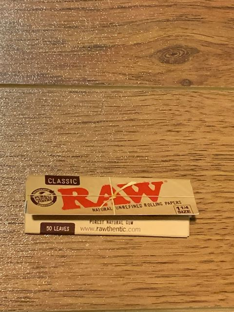 A 1 1/4 size package of RAW classic rolling papers. Each package comes with 50 rolling papers.